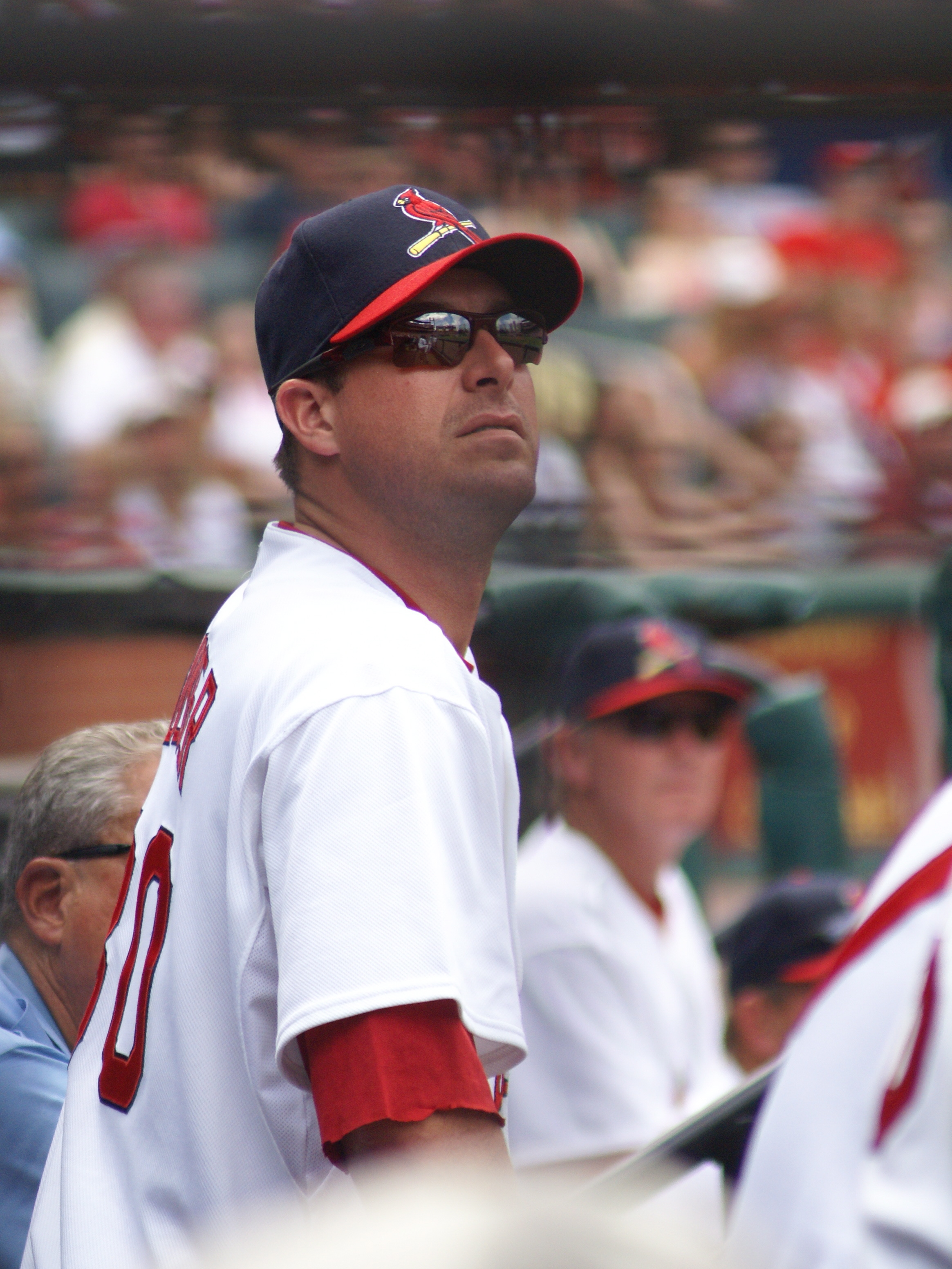 An image of Mark Mulder with the St. Louis Cardinals, June 2008.